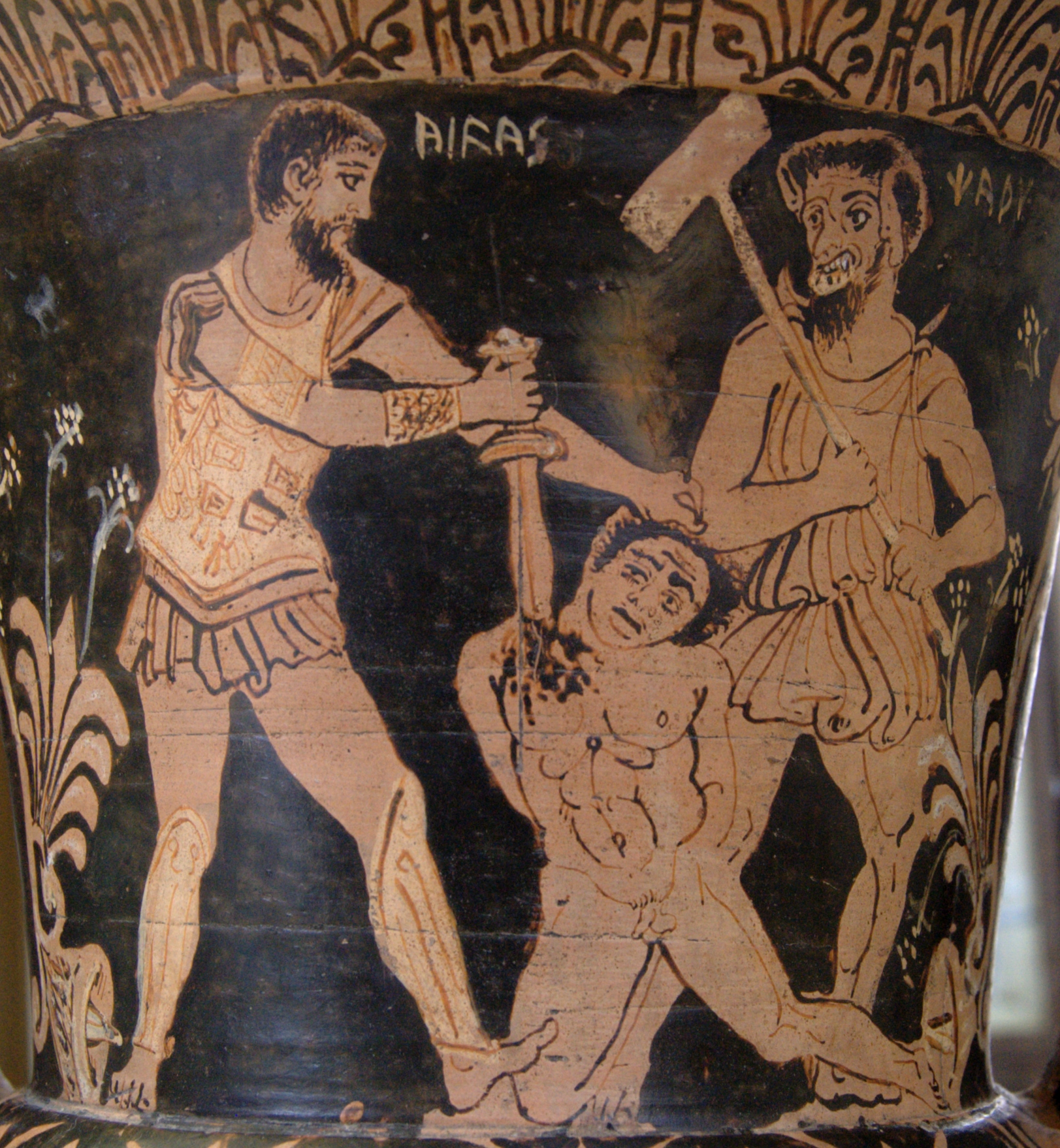 Ajax (etruscan Aivas) killing a Trojan prisonner in front of Charun (the Etruscan demon of death, related to the Greek Charon) armed with a hammer. Side A from an Etruscan red-figure calyx-crater, end of the 4th century BC–beginning of the 3rd century BC.